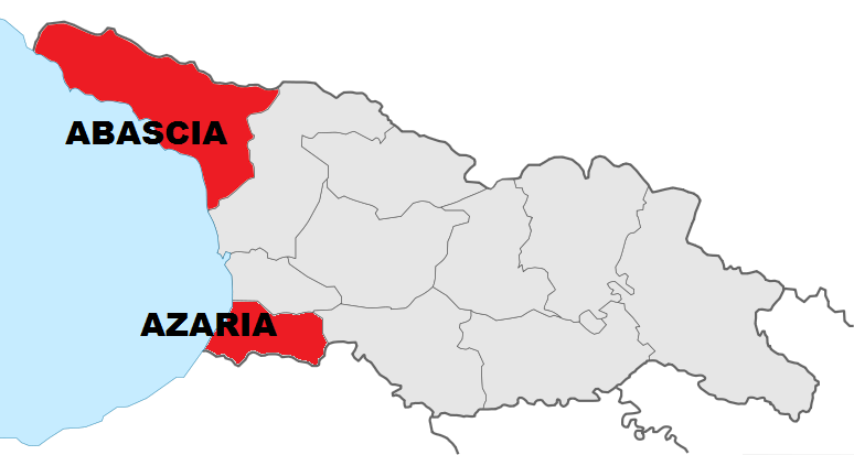 Map of Abkhazia and Adjara within Georgia. Latin version.